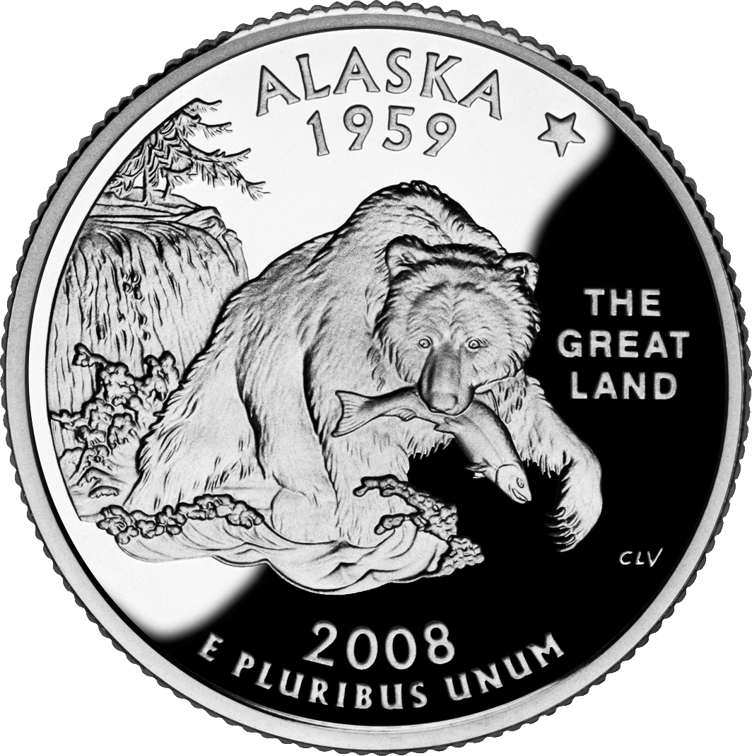 Removed background, cropped, and converted to PNG with Microsoft Photo Editor. This image depicts a unit of currency issued by the United States of America. If Fraudulent use of this image is punishable under applicable counterfeiting laws. As listed by the United States Secret Service at money illustrations, the Counterfeit Detection Act of 1992, Public Law 102-550, in Section 411 of Title 31 of the Code of Federal Regulations (31 CFR 411), permits color illustrations of U.S. currency provided:1. The illustration is of a size less than three-fourths or more than one and one-half, in linear dimension, of each part of the item illustrated;2. The illustration is one-sided; and3. All negatives, plates, positives, digitized storage medium, graphic files, magnetic medium, optical storage devices, and any other thing used in the making of the illustration that contain an image of the illustration or any part thereof are destroyed and/or deleted or erased after their final use. Certain coins contain copyrights licensed to the U.S. Mint and owned by third parties or assigned to and owned by the U.S. Mint [1]. For the United States Mint circulating coin design use policy, see [2]; for the policy on the 50 State Quarters, see [3]. Also: COM:ART #Photograph of an old coin found on the Internet